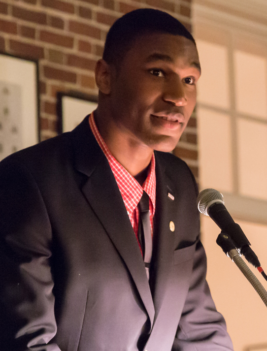 Winter athletic banquet at Northfield Mount Hermon, March 7, 2013.